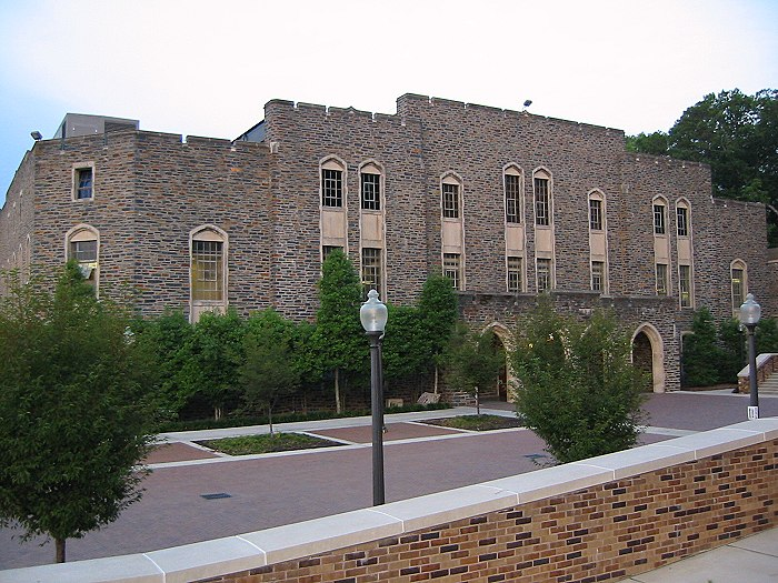 uploaded by gregw824; GFDL